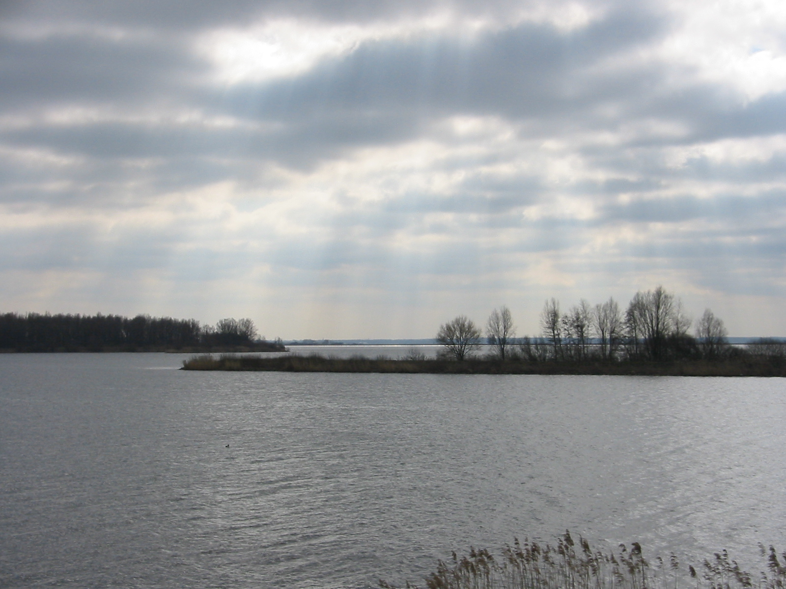 Eemmeer with the island of De Dode Hond